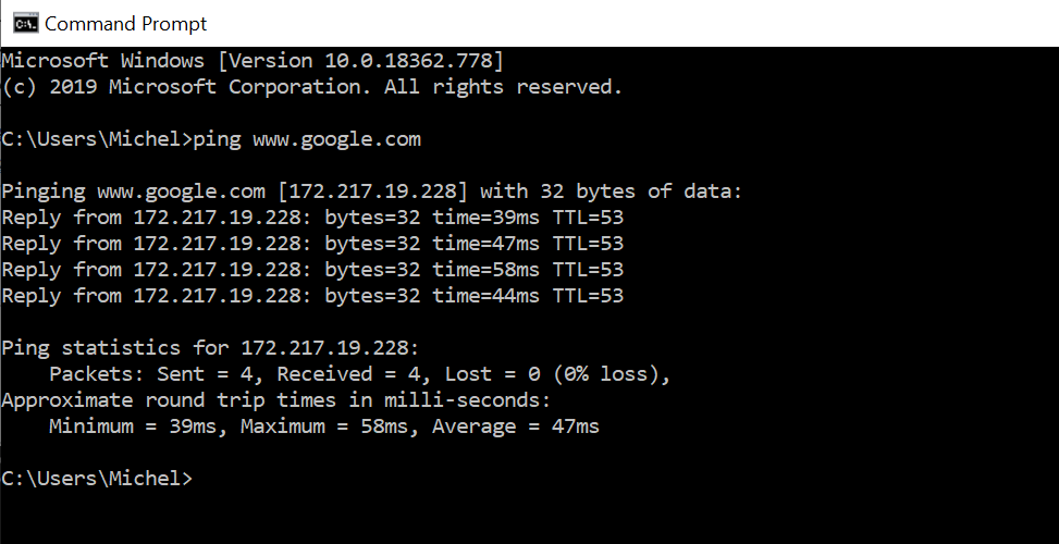 An example of Ping utility in DOS.